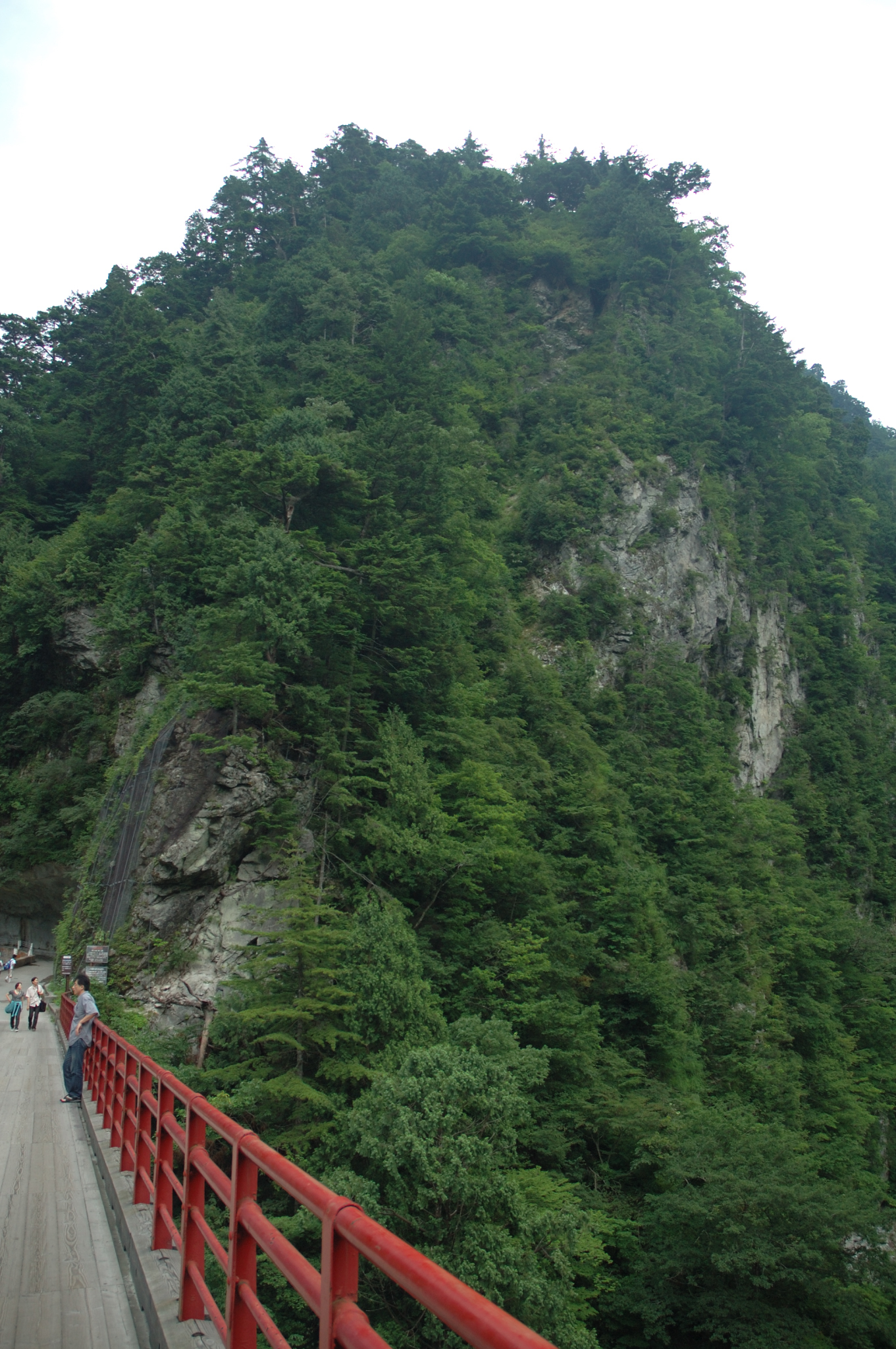 View from the Okukane Bridge (Okukane-bashi) in Kurobe City, Toyama Prefecture, Japan